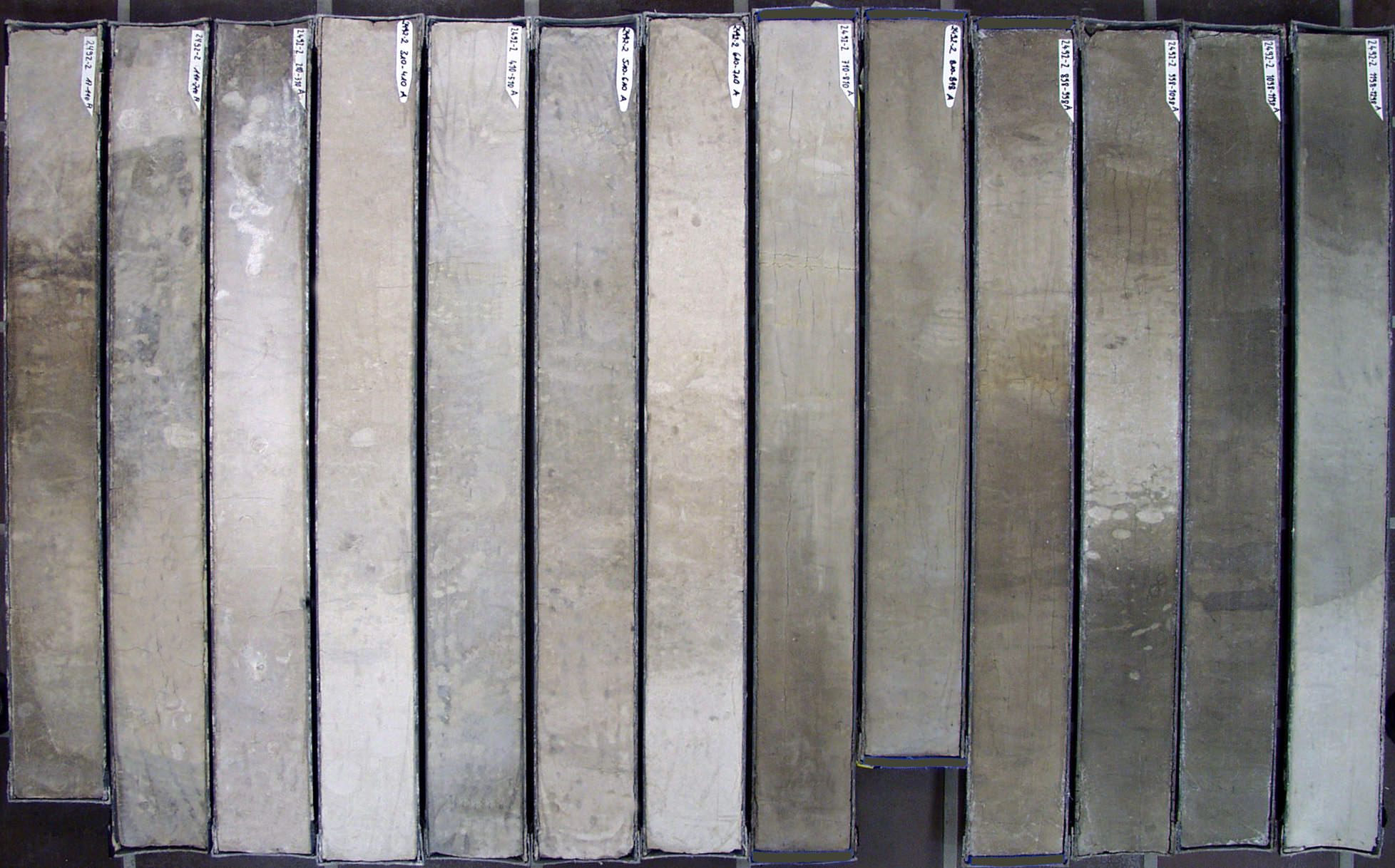 Sediment core, taken with a gravity corer by the research vessel POLARSTERN in the South Atlantic; light/dark-coloured changes are due to climate cycles of the Quaternary; basis age of the core is about 1 Million years (length of each segment is 1 m). For a more detailed description and detail photographs of the core see Gersonde (2003).[1]